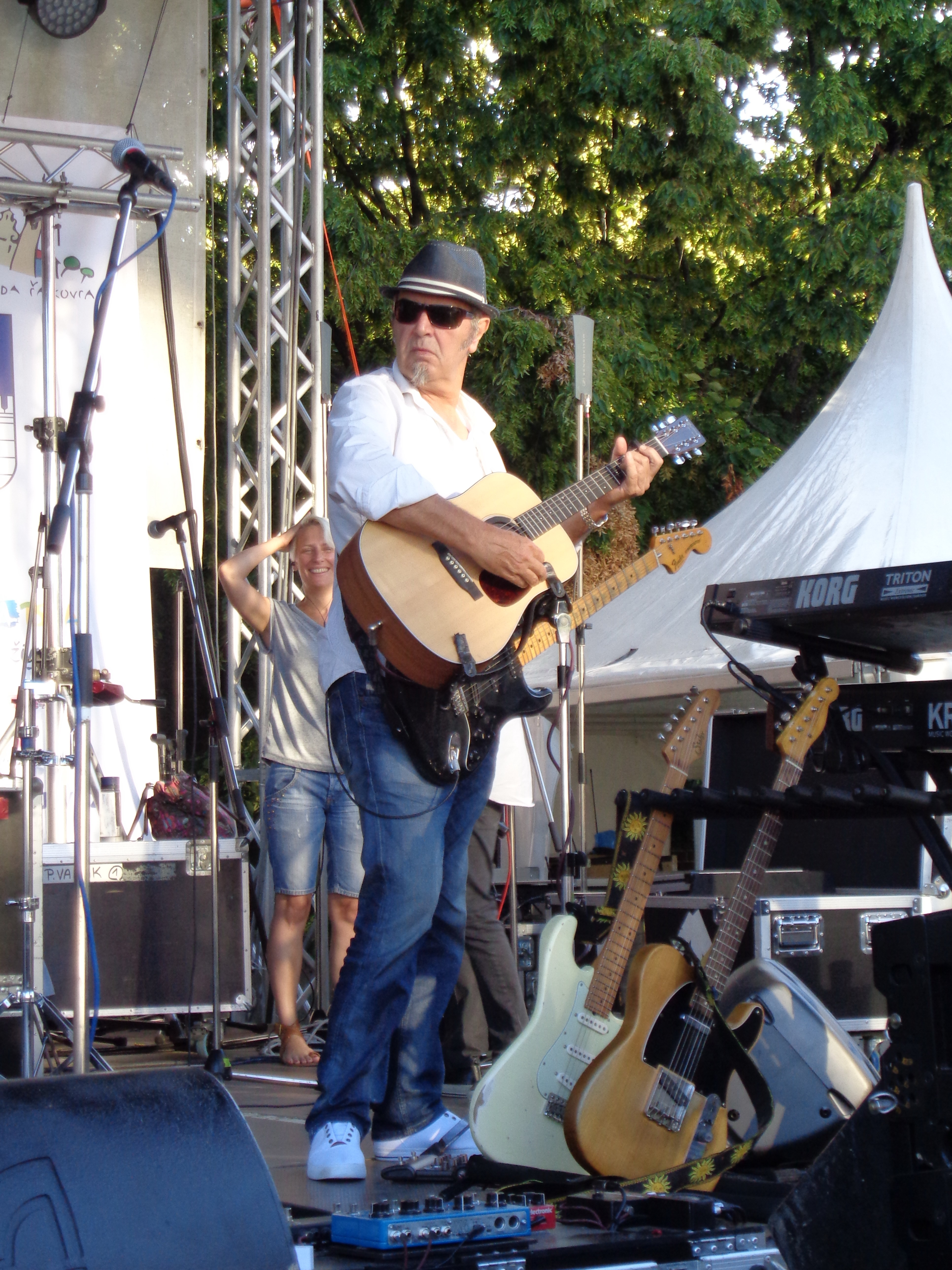 Husein Hasanefendić - Hus, founder of Parni valjak, rock music group from Zagreb, at Porcijunkulovo, Catholic feast of Our Lady of the Angels and local festival in Čakovec, Croatia (2016)